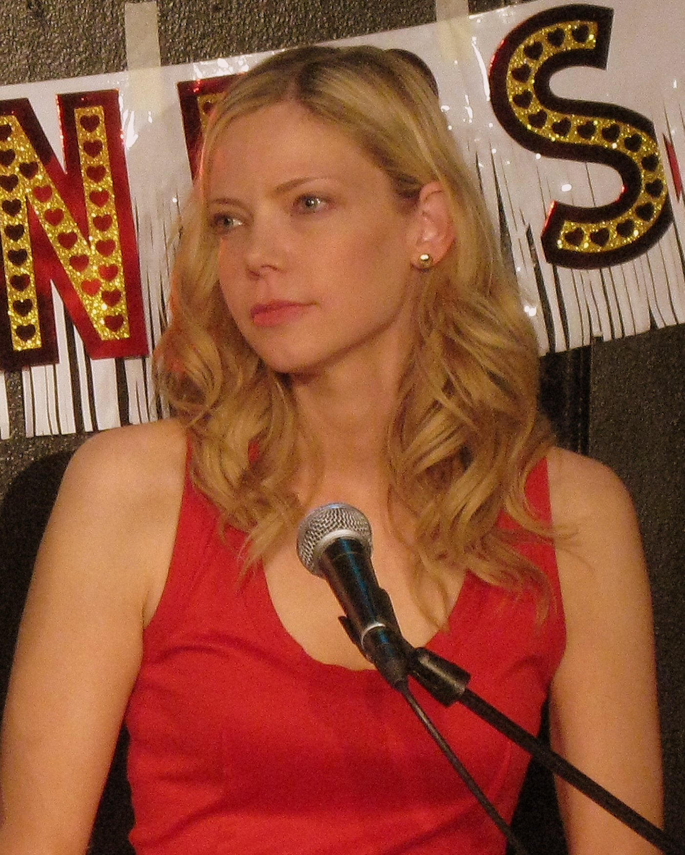 Riki Lindhome at Upright Citizens Brigade.